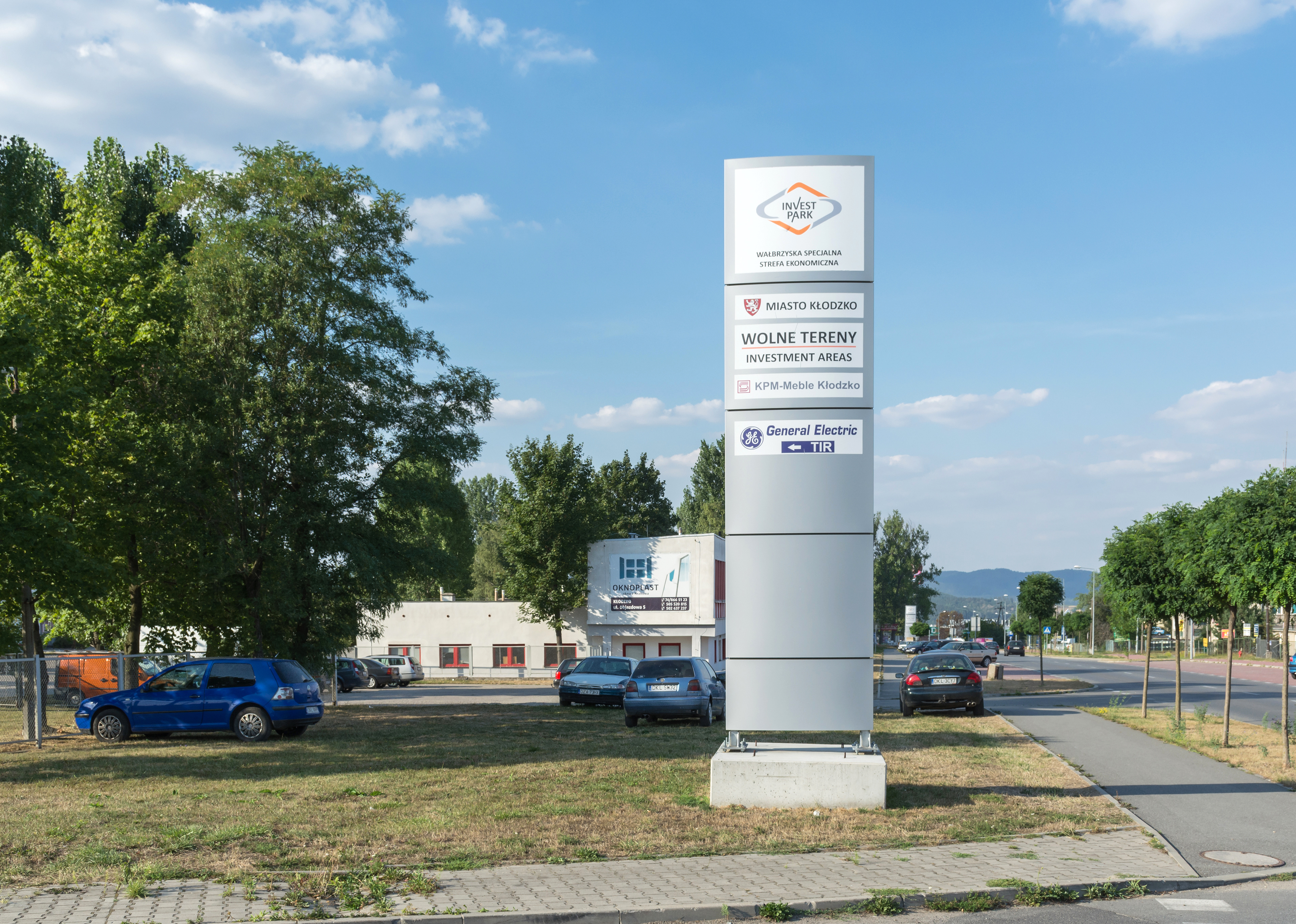 Objazdowa Street in Kłodzko